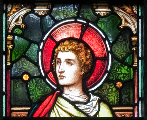 Detail of right part of second stained glass window in the east aisle (right from the nave if coming from the main entrance in the south), depicting the evangelist John. Augustus Pugin (1812–1852) Alternative names Augustus Welby Northmore Pugin; A. W. N. PuginDescriptionBritish architectDate of birth/death 1 March 1812 14 September 1852 Location of birth/death Bloomsbury RamsgateWork location United Kingdom Authority control : Q313288 VIAF: 17247761 ISNI: 0000 0000 8096 1987 ULAN: 500008414 LCCN: n50027100 NLA: 35435757 WorldCat creator QS:P170,Q313288